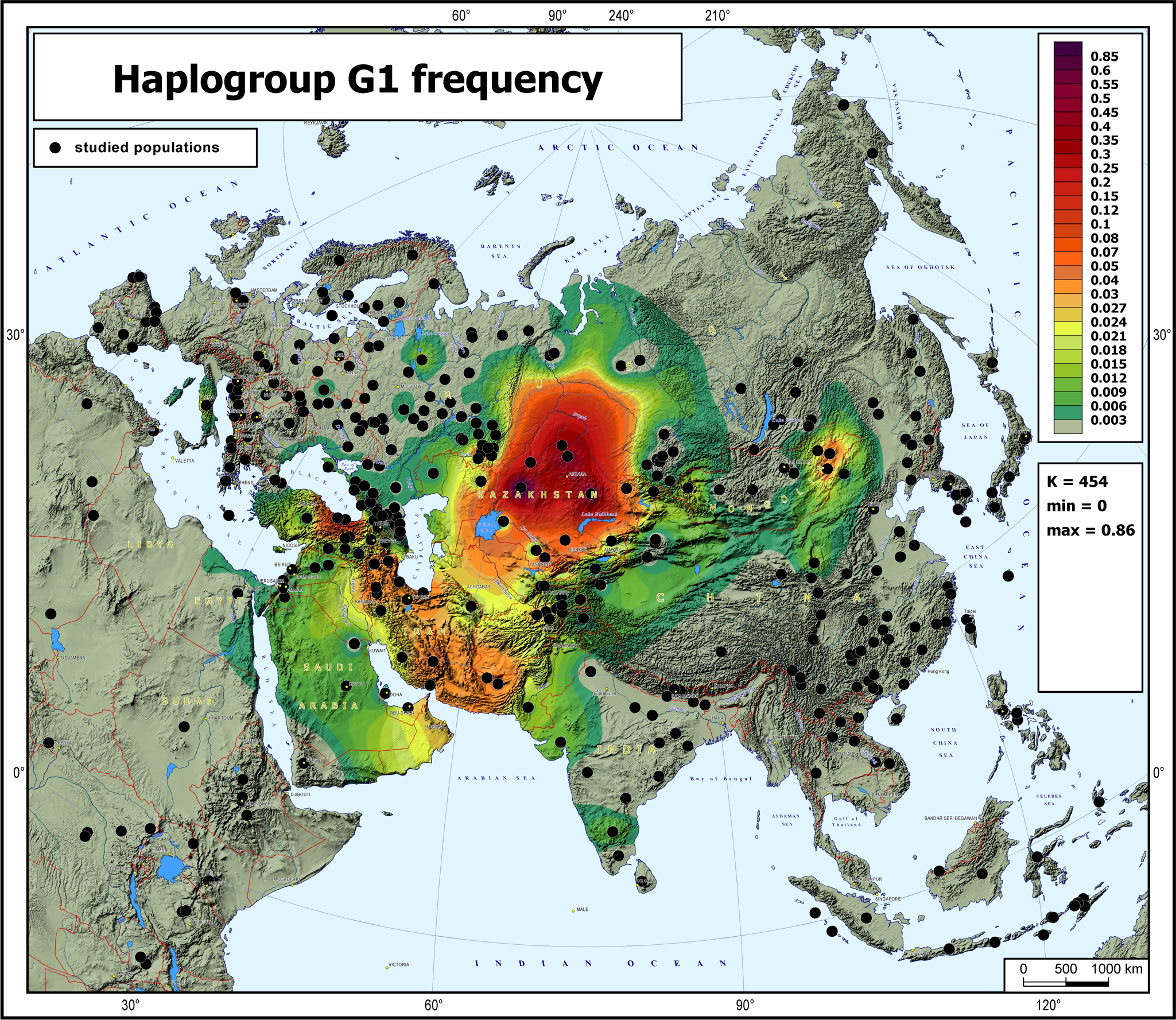 Frequency distribution map of Y-chromosomal haplogroup G1-M285. The black points represent the populations analyzed. Abbreviations in the statistical legend indicate the following: K, number of the populations studied; MIN and MAX, the minimal and maximum frequencies on the map.